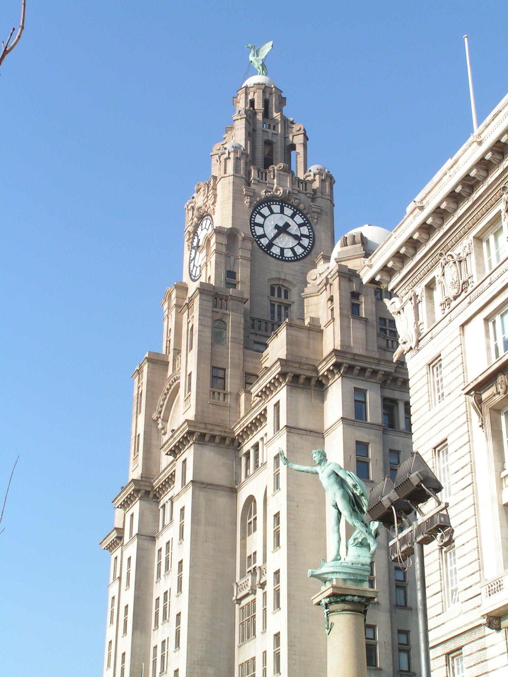 Royal Liver Building Tower, Liverpool